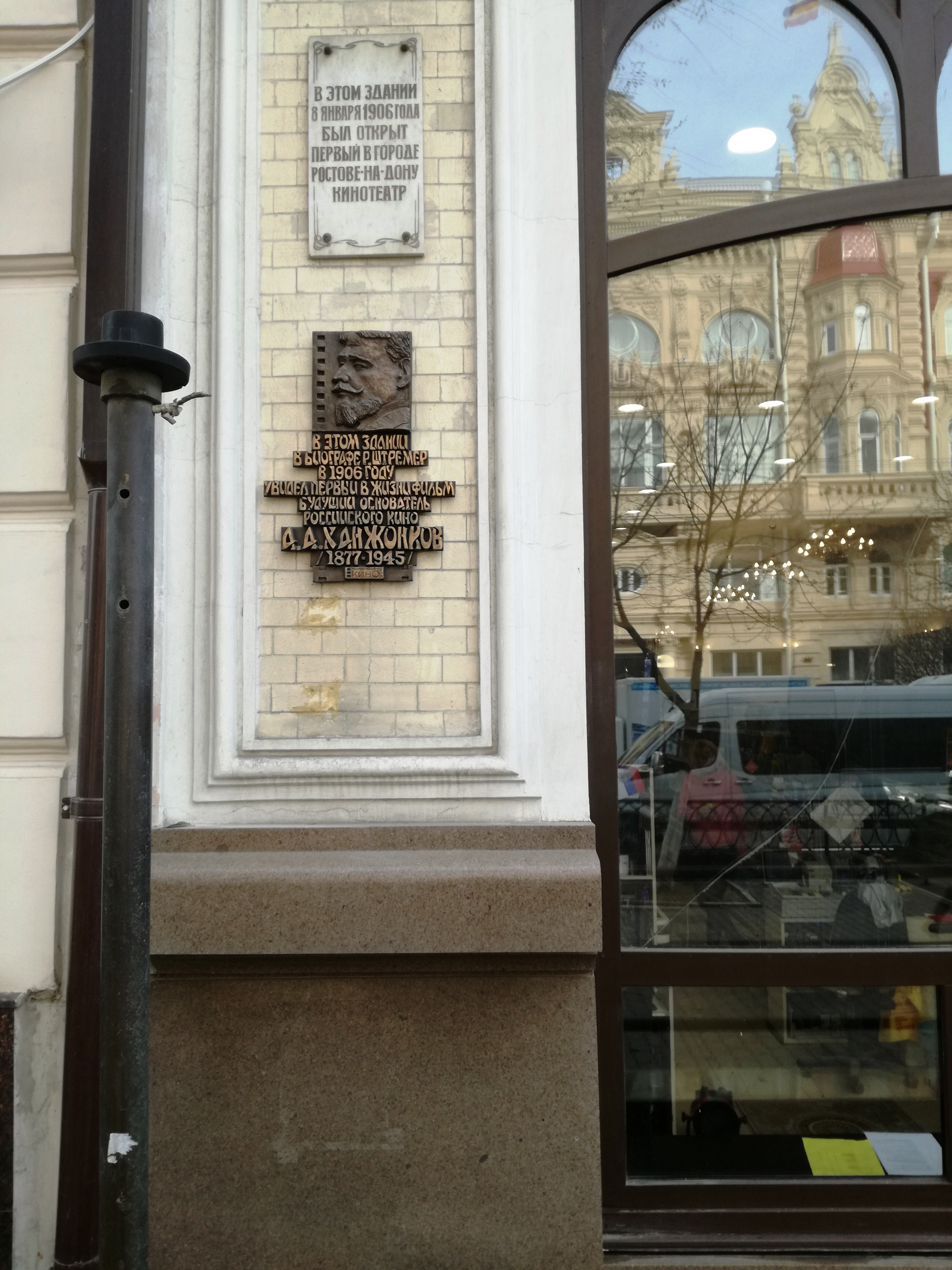 Rostov